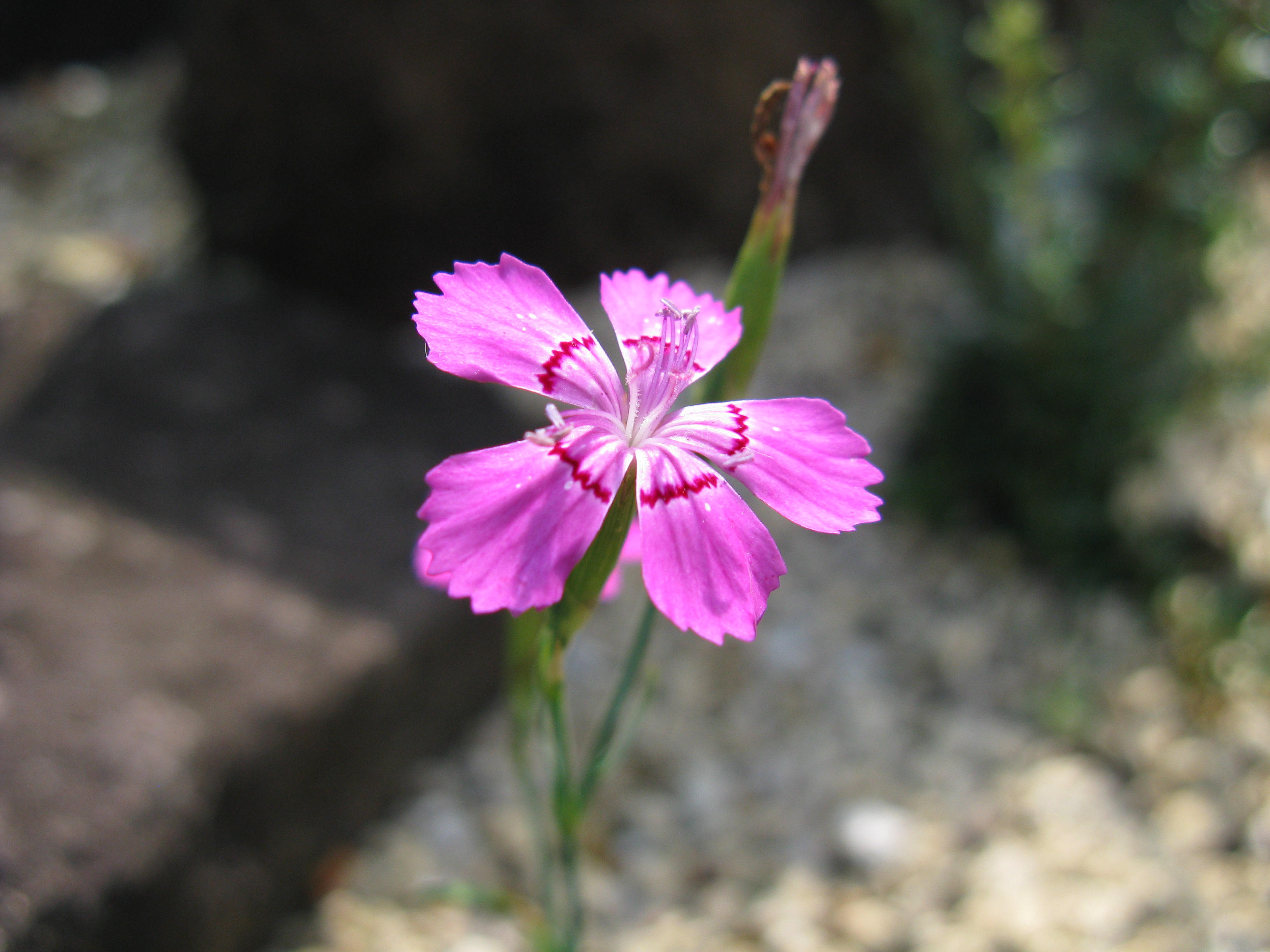 Scientific name Dianthus microlepis Place:Osaka,Japan